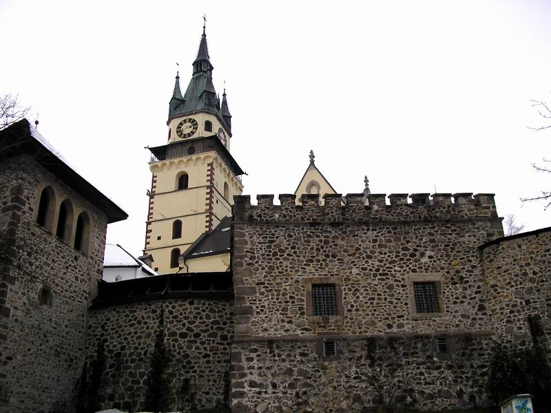 Kremnica Town Castle with Saint Catherine Church, Slovakia, 2004